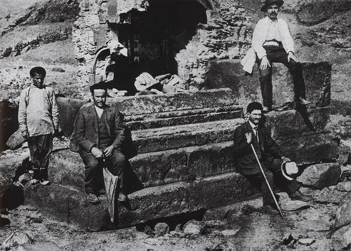 Tomb of King Ashot III of Ani, in Ani, 1902. The man with the stick at the front right is the Armenian painter Martiros Saryan.